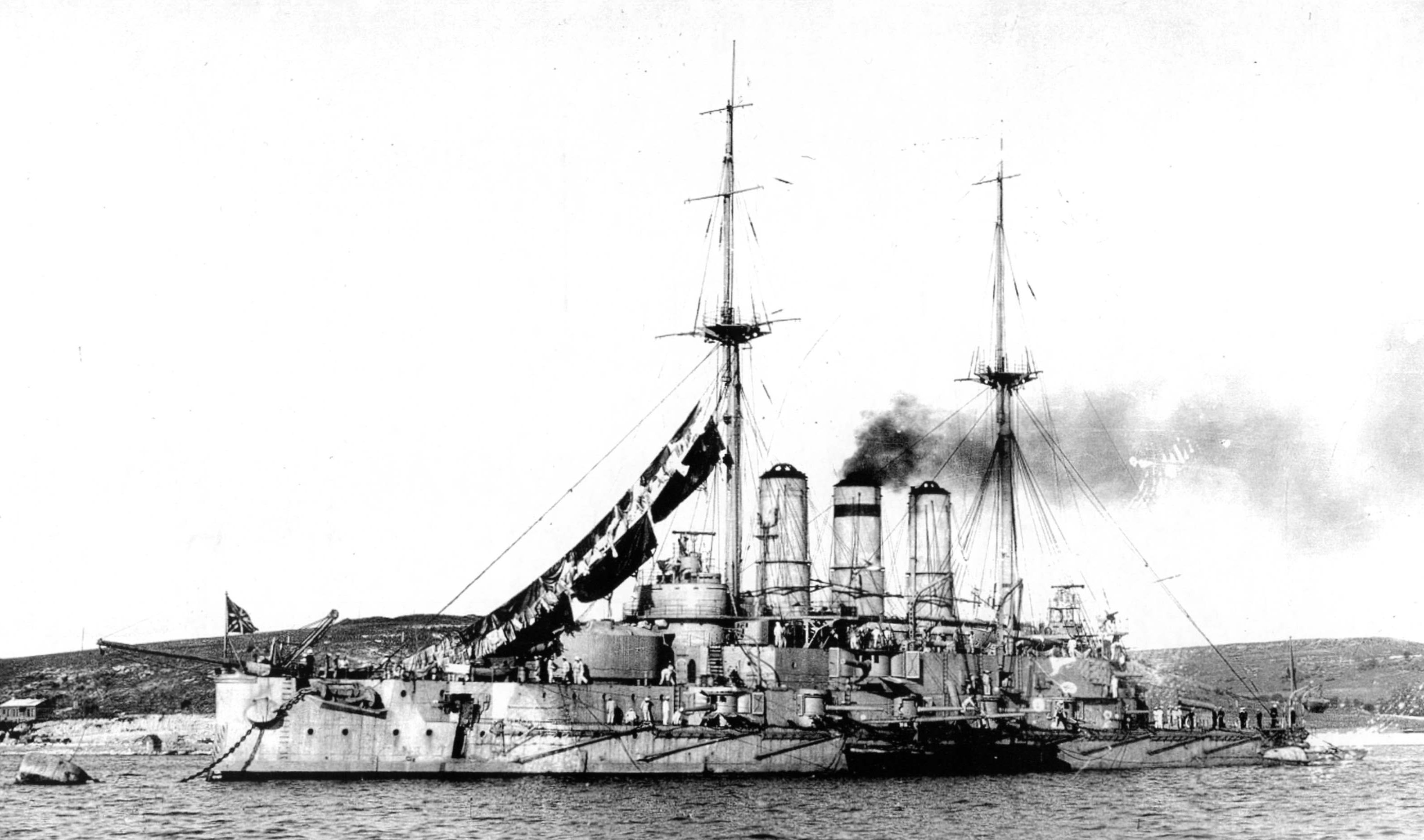 Imperial Russian battleship Ioan Zlatoust.